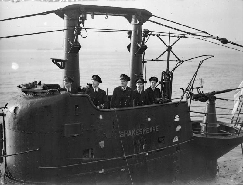 The Royal Navy Durng the Second World War HMS/M SHAKESPEARE returning to Devonport after 19 months operational activity in the Mediterranean. On the bridge of the SHAKESPEARE are, left to right: Lieutenant N D Campbell, RN, of Sevenoaks (Gunnery Officer); Lieutenant W E I Little-John, DSC, RANVR, of Melbourne, Australia (First Lieutenant); Lieutenant M F R Ainlie, DSO, DSC, RN, of Ash Vale, Surrey (Commanding Officer); Sub Lieutenant R G Pearson, RNVR, of Hitchin, Herts (Torpedo Officer); Lieutenant L H Richardson, RN, of Jersey, Channel Islands (Navigating Officer). Naval Radar: The conning tower of the submarine is showing a 291W Air Warning Set.